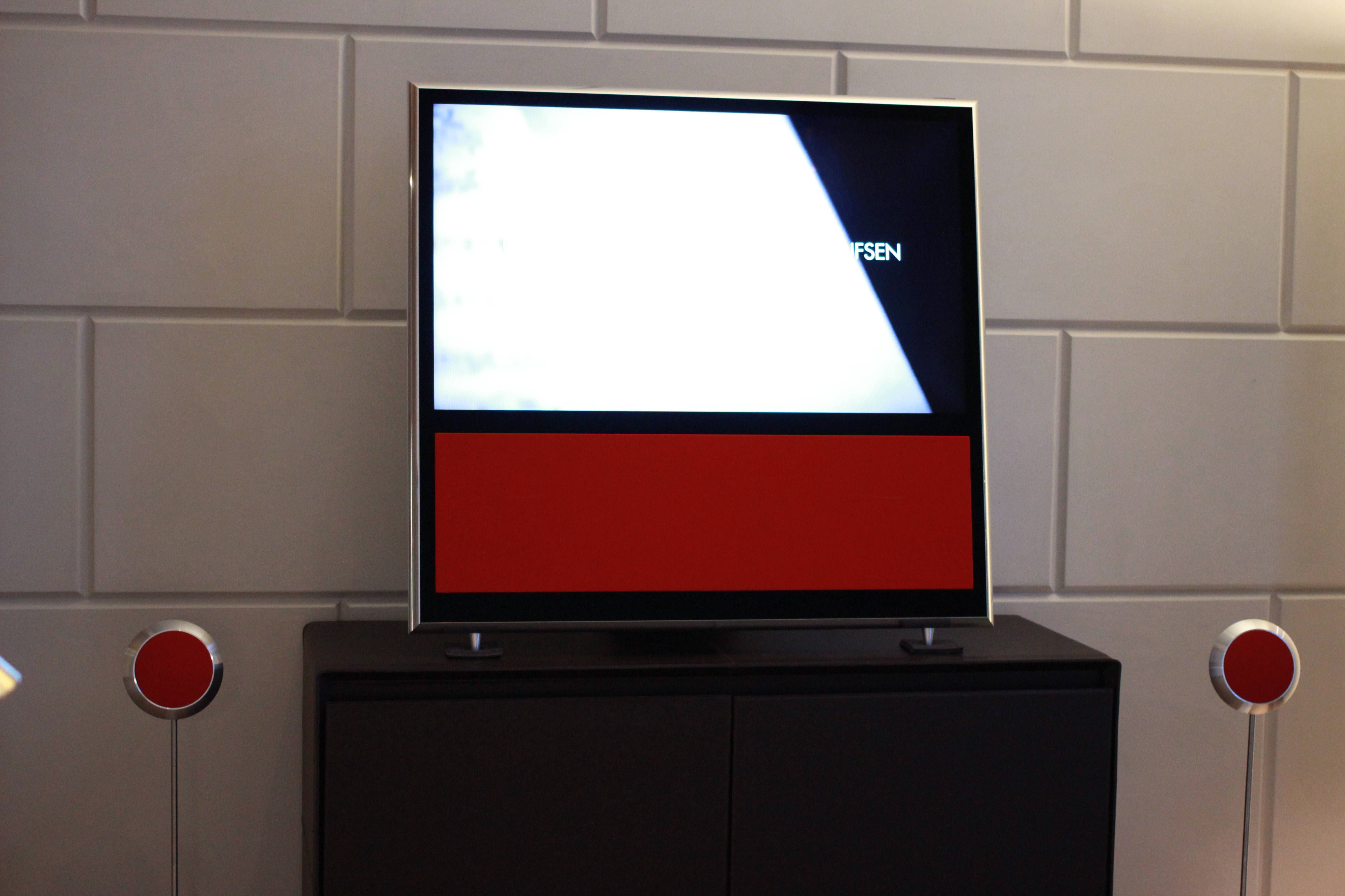 Bang & Olufsen BeoVision tv and BeoLab14 speakers